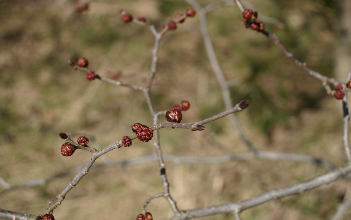 Description: Ulmus glabra, opening flower buds, taken in Jutland, Apr 2006. Source: Own work Author: Sten Porse